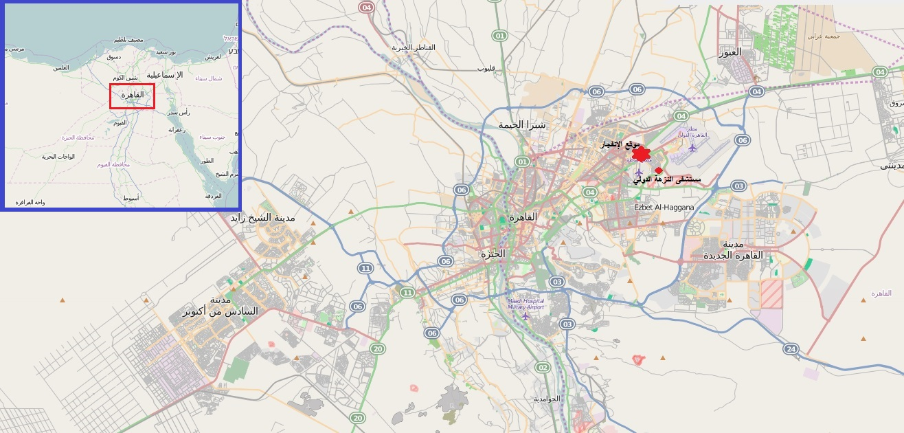 Map assassination of Hisham Barakat